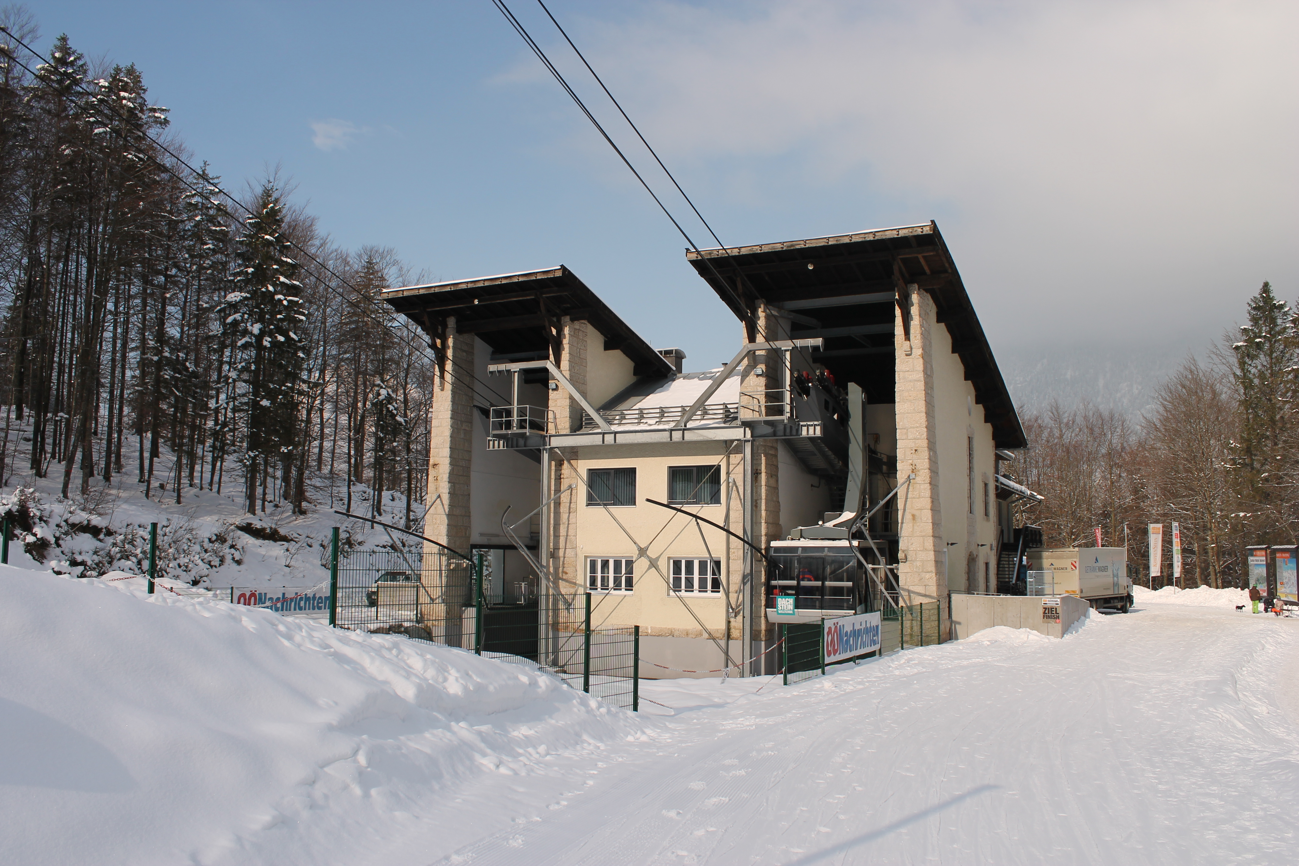 Bottom station of Dachsteinbahn I, Upper Austria